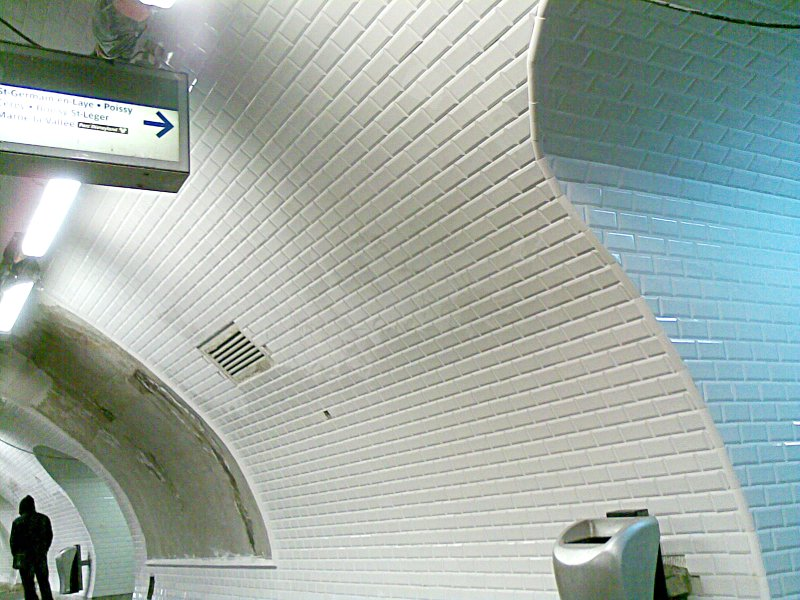 Bruno Gaudin style of Métro station renovation in classical 1900 style.